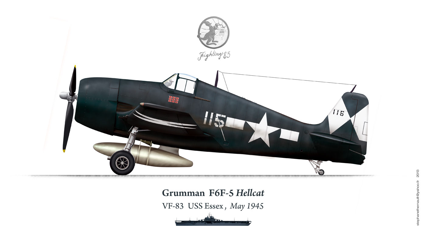 Grumman F6F5 Hellcat